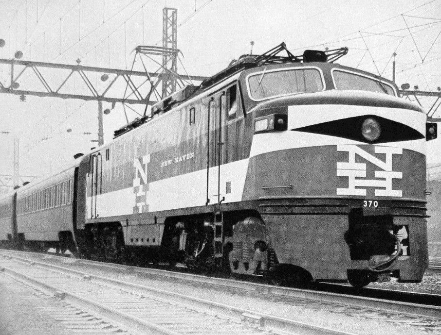 Ad with photo of one of the New Haven's EP5 "rectifier" electric locomotives built by GE.